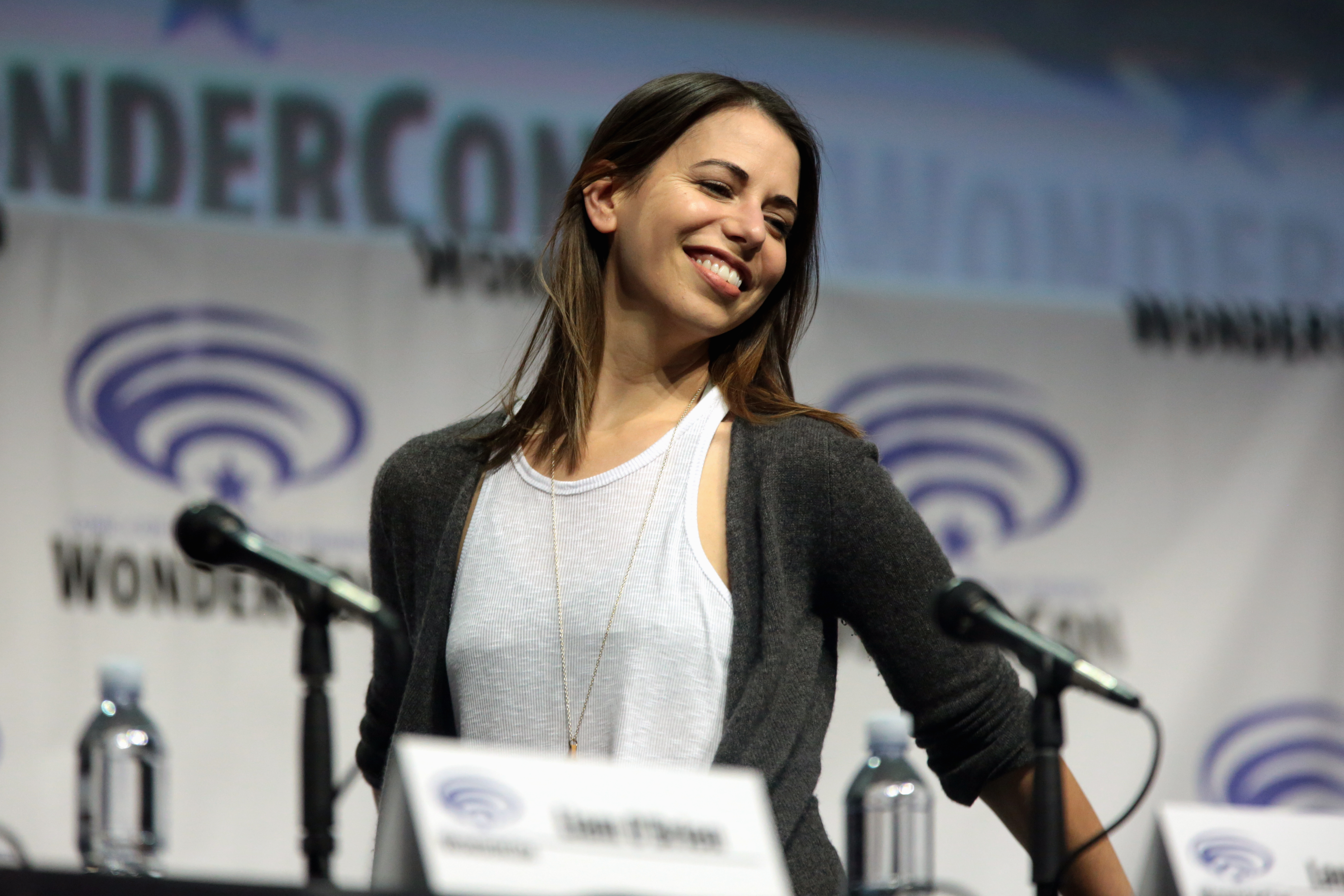 Laura Bailey speaking at the 2017 WonderCon in Anaheim, California.